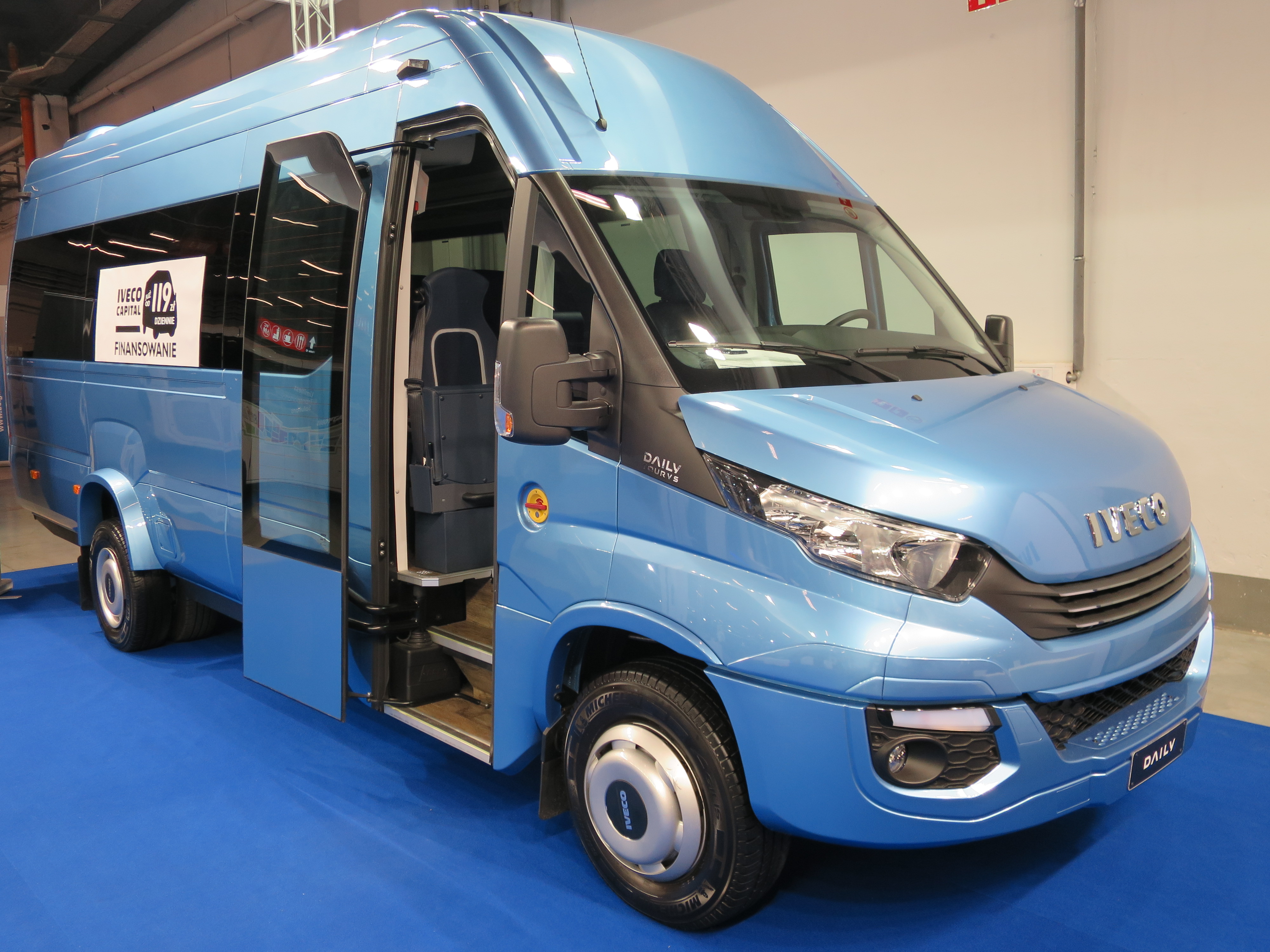 The making of this document was supported by Wikimedia Polska Association, within Wikigrant no. WG 2016-45. Iveco Daily Tourys